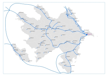 intrenal network of company